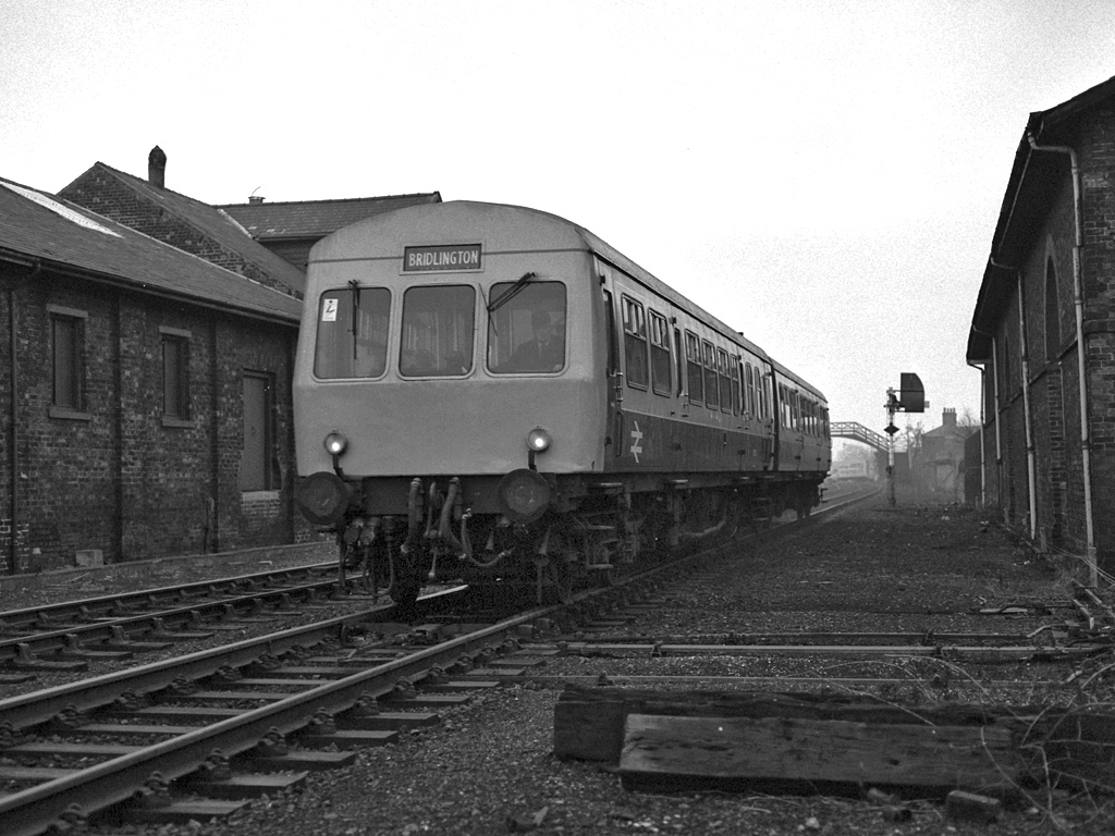 Beverley, East Riding of Yorkshire, England.British Railways Metropolitan-Cammell RC&WCo class 101 2-car diesel-mechanical multiple unit E50201 and E56062 approaches Beverley station on the Down Main line forming the 11:44 Hull to Bridlington. Wednesday 29th December 1982